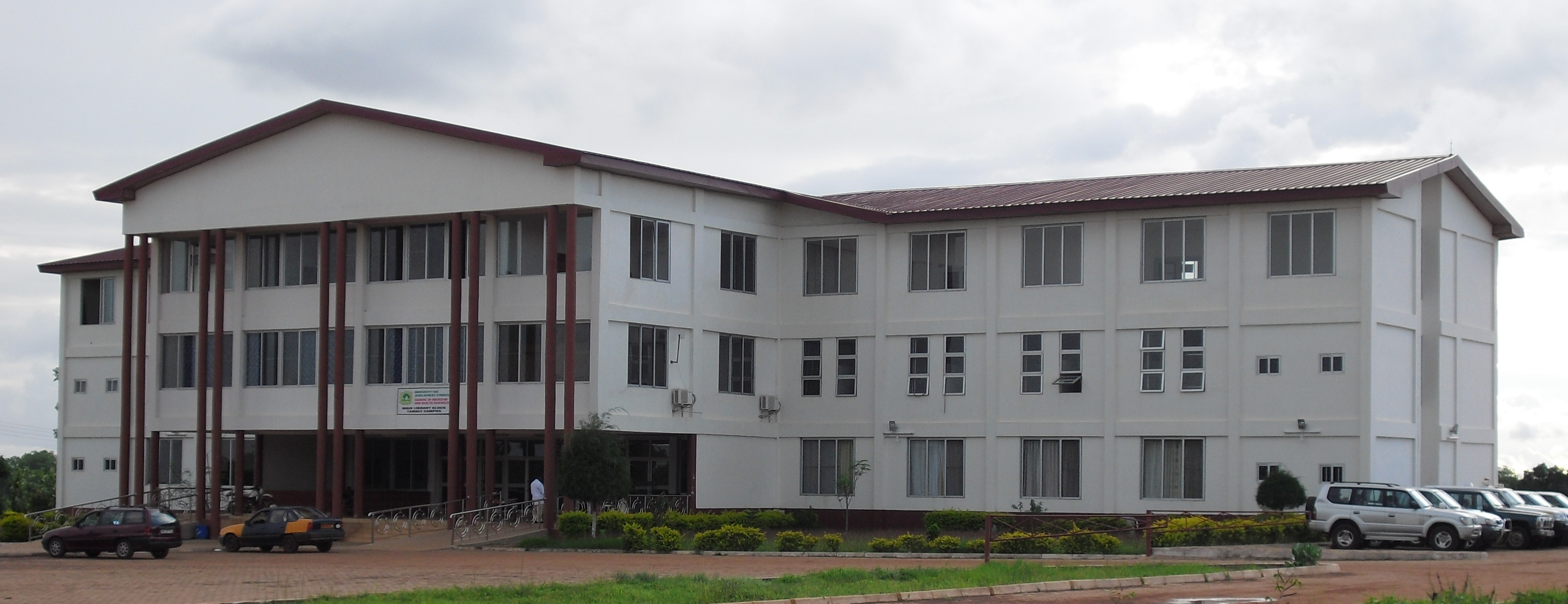 The front view of the building of the School of Medicine and Health Sciences, University for Development Studies, Tamale, Ghana